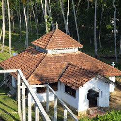 මිංහෙට්ටිය පුරාණ විහාරය